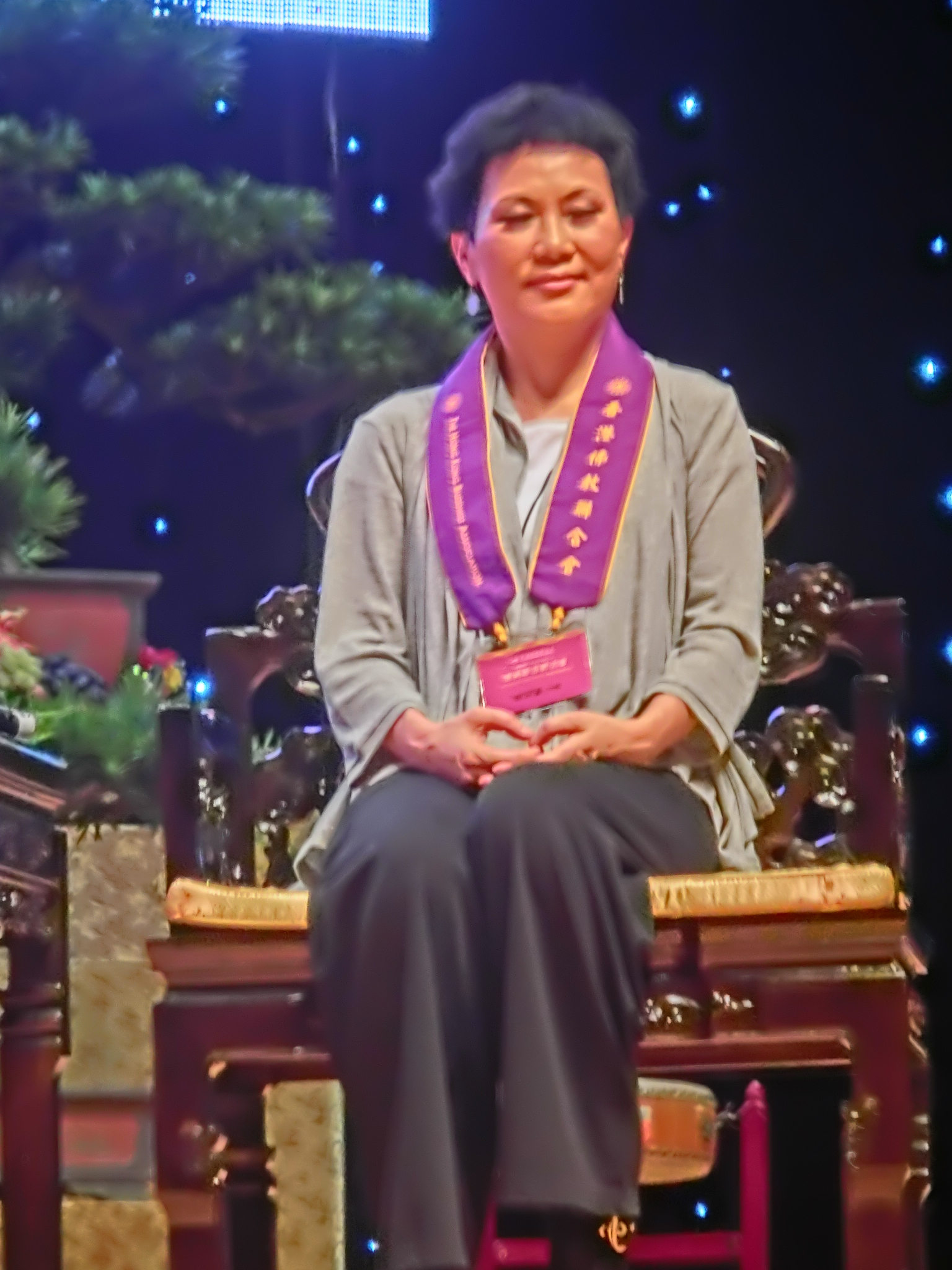 香港佛教聯合會 Hong Kong Buddhist Association 佛誕 at 香港體育館